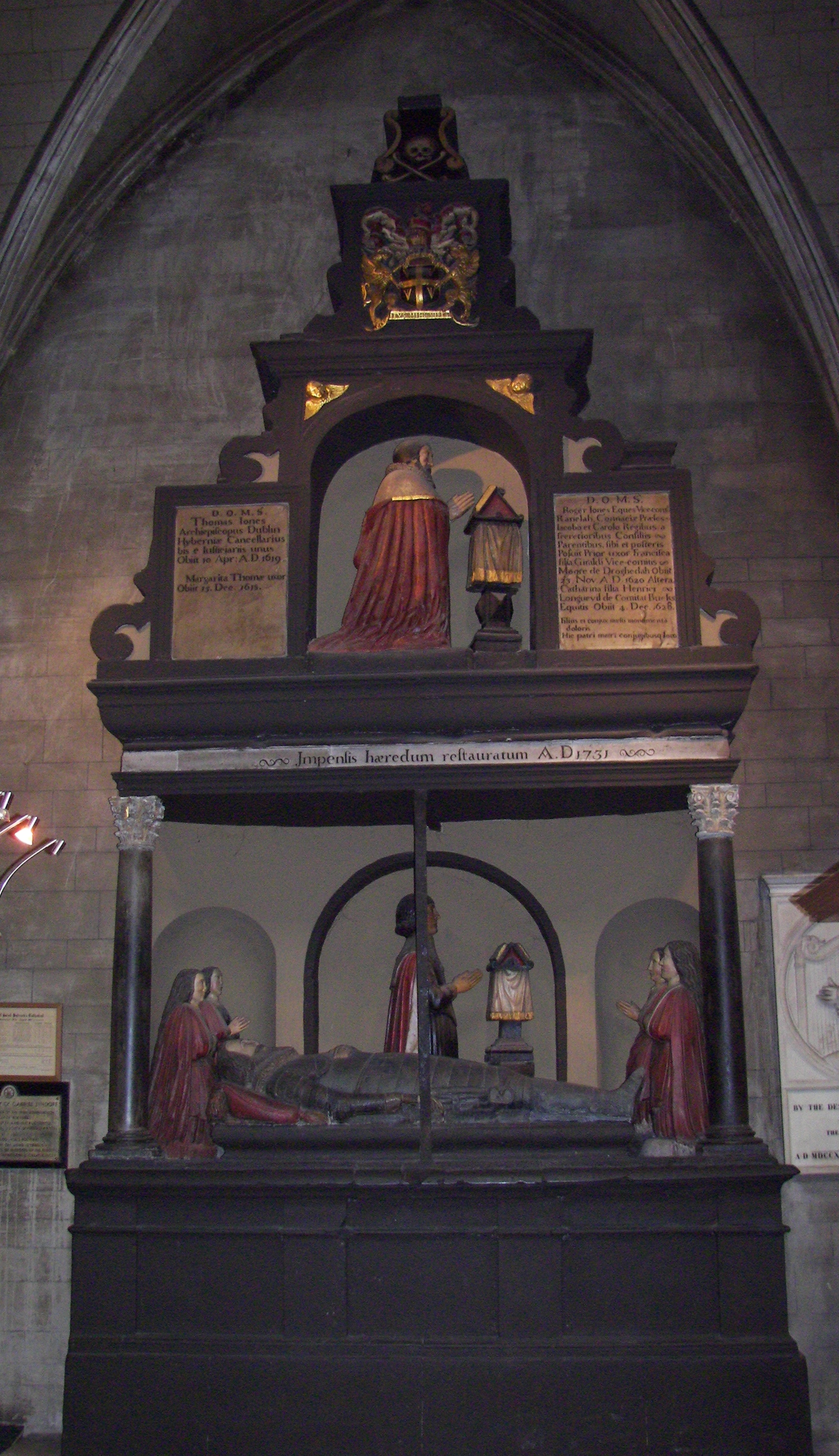 Memorial to Thomas Jones in St. Patrick's Cathedral, Dublin. Jones was Dean of St. Patrick's Cathedral (1581-1585), Bishop of Meath (1584-1605), and Archbishop of Dublin (1605-1619).